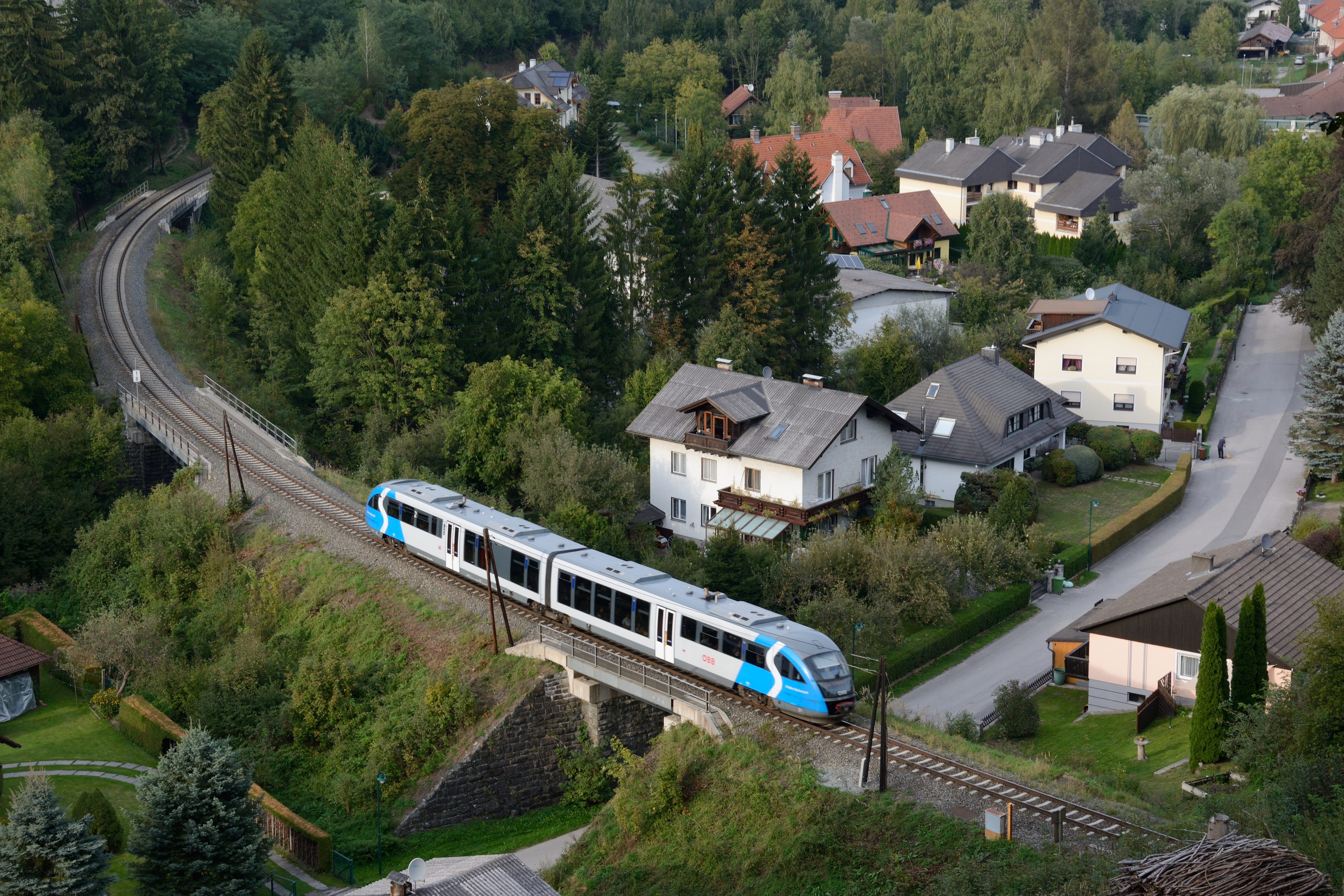 ÖBB 5022 crossing the bridge of Wechselbahn over the Großer Pestingbach (left) and a state road (right), Aspang-Markt, Lower Austria